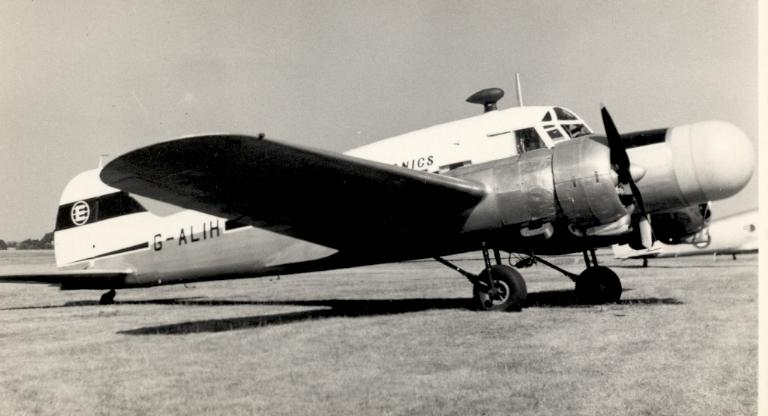 Avro Anson 11 G-ALIH of Ecko Electronics at Blackbushe, Hants